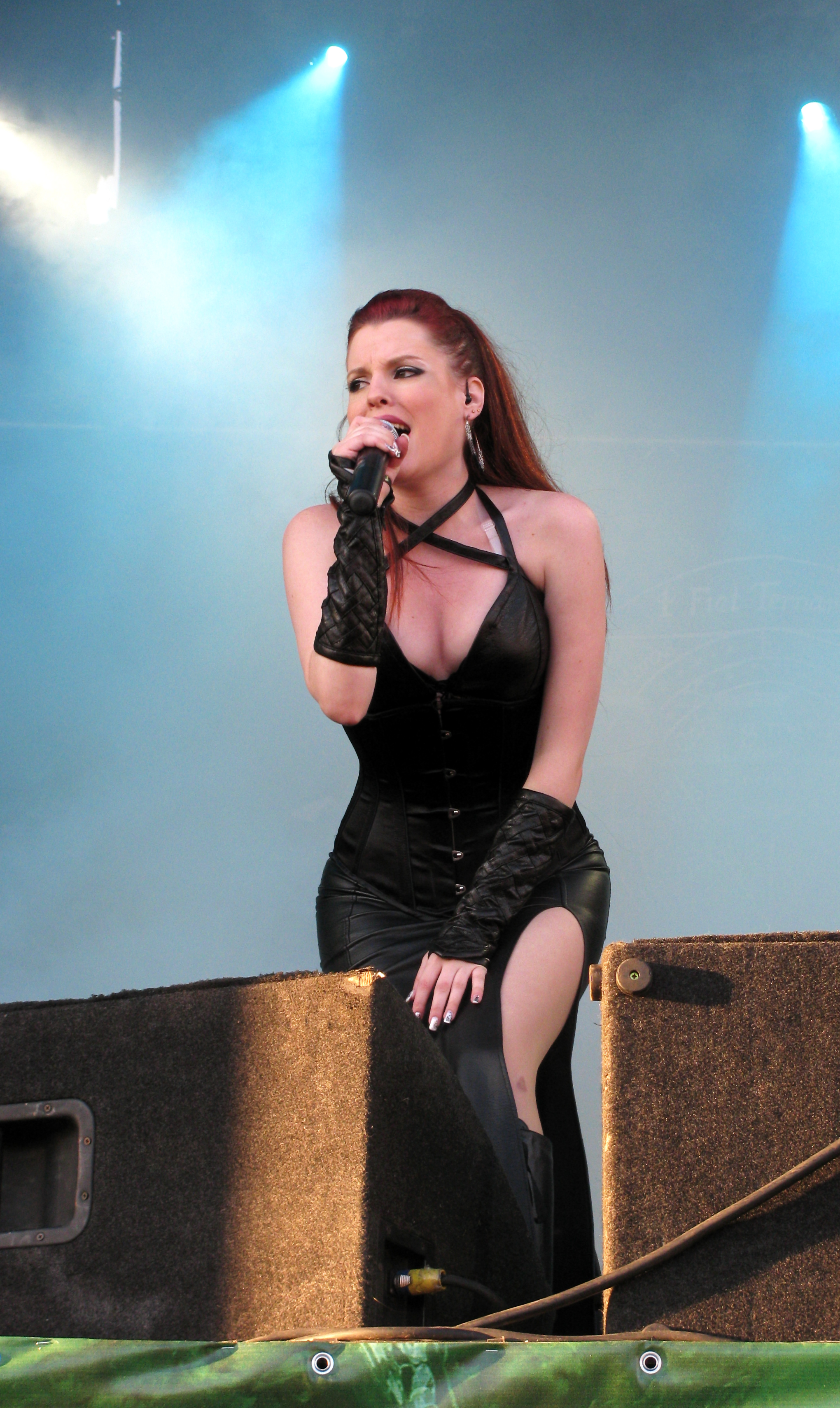 Sirenia playing at Global East Rock Festival 2010